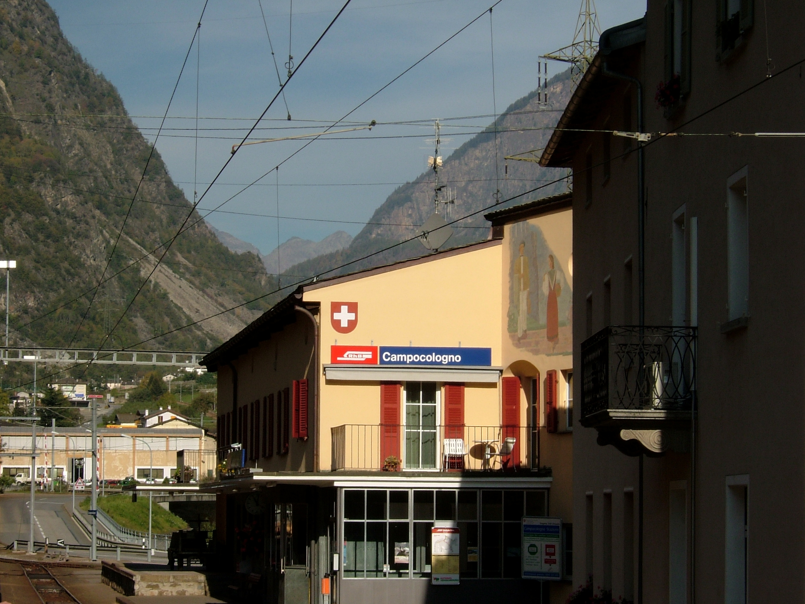 Bernina railwayDeployment between Poschiavo and TiranoCampocologno train station at the frontier between Switzerland and Italy